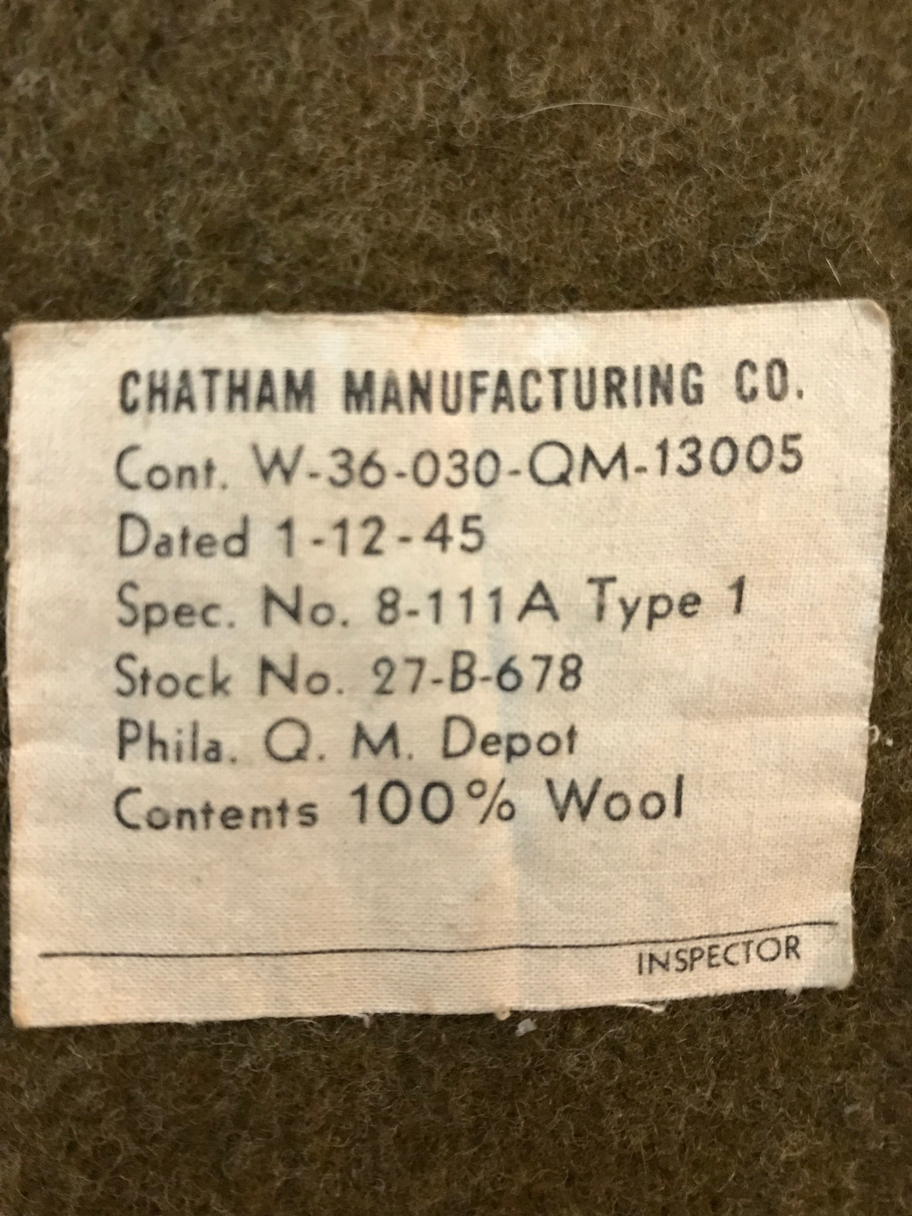 A WW2 Chatham Blanket label.